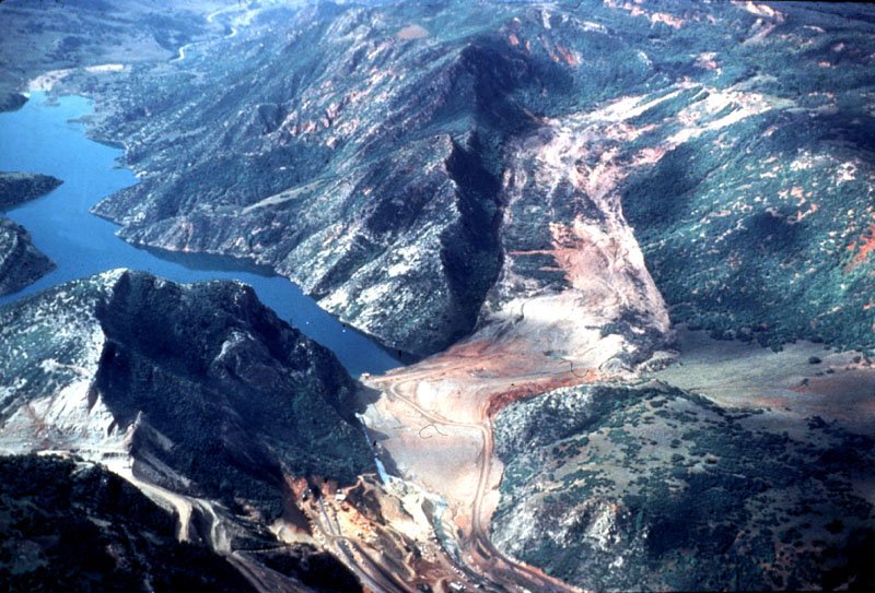 The Lake that formed from a landslide that dammed the Spanish Fork River and destroyed the town of Thistle, the massive cut visible in the left is construction to relocate US-6 which was inundated by the landslide.